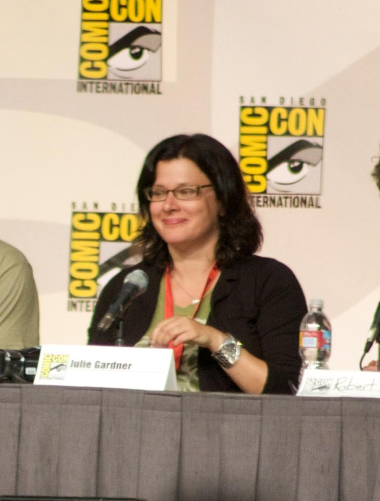 Producer Julie Gardner – 2009 Comic-Con International – "Doctor Who" panel.